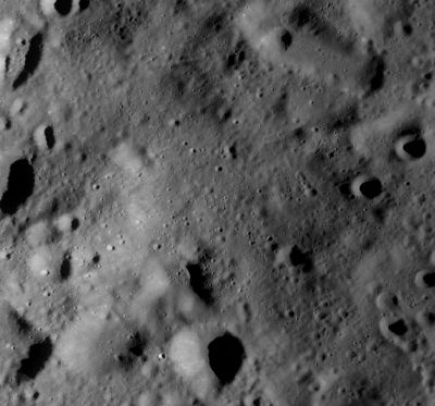 LROC WAC image (No. M130809717ME. Barely perceptible to see in this image, Van Maanen is at centre of image